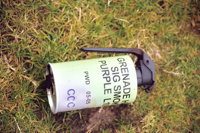 Smoke Grenade, Cardinham Moor This discharged smoke grenade was found next to the bridle way crossing Cardinham Moor and was left behind after a training exercise. Notices warn walkers against picking up "undischarged ordnance" and although this did not fit the description, we left it well alone!